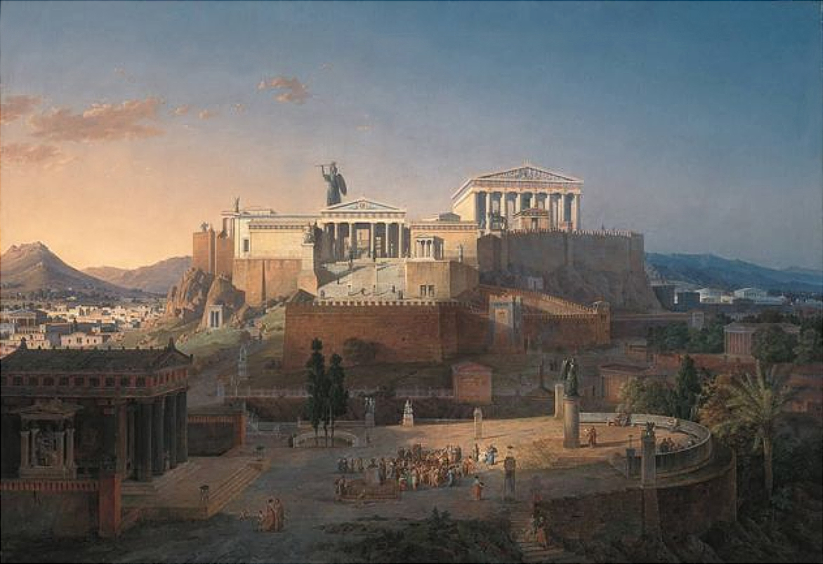 Leo von Klenze painting: Ideal view of the Acropolis and Areopagus in Athens. Oil on canvas, 1846. Dimensions: 102.8 x 147.7 cm. Acquired in 1852 by King Louis I of Bavaria with the artist.